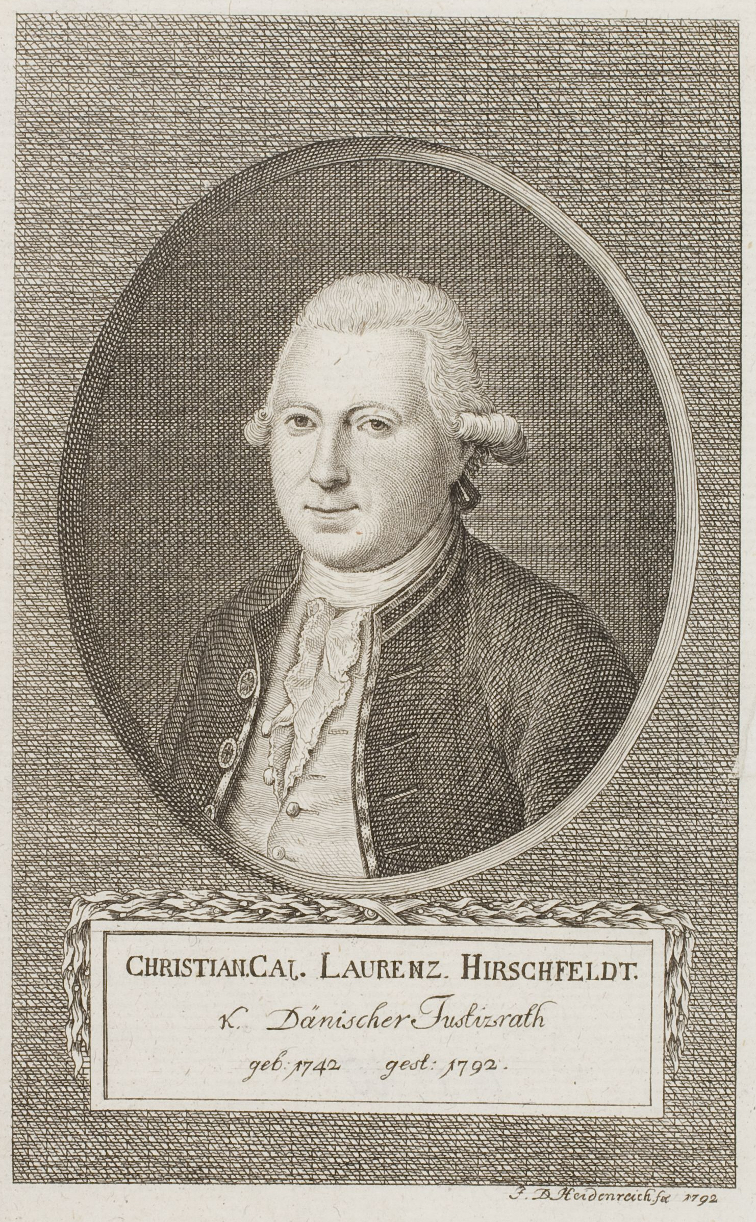 Portrait of Christian Cay Lorenz Hirschfeld (1742-1792)